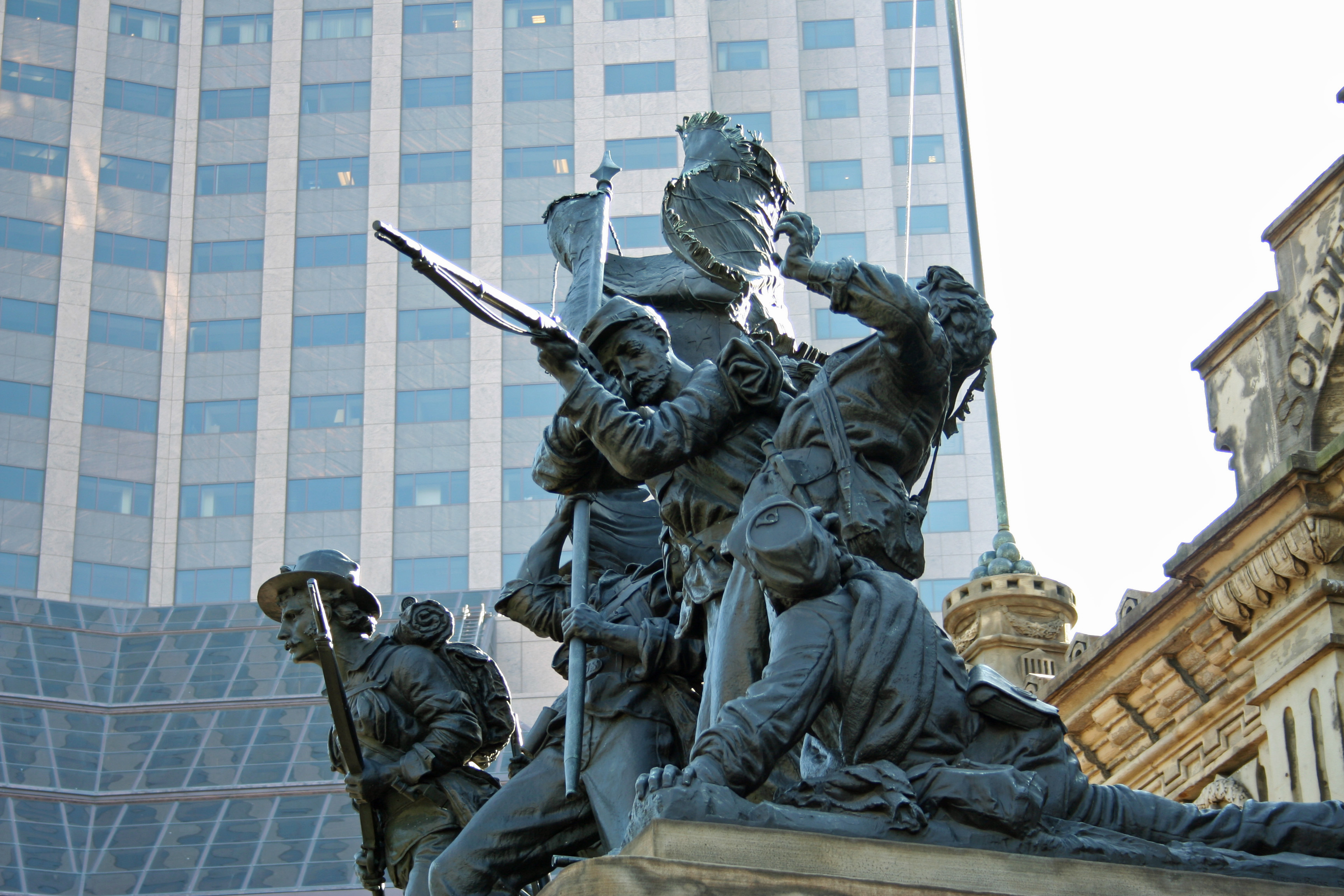 One of the four sculptural groupings at the Soldiers' and Sailors' Monument in downtown Cleveland, Ohio.